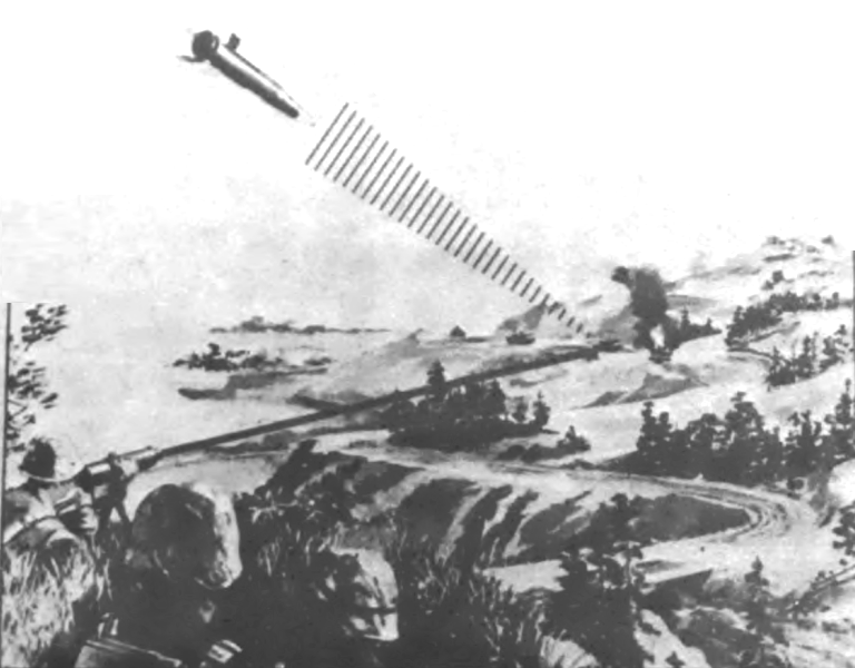 CLGP battlefield application